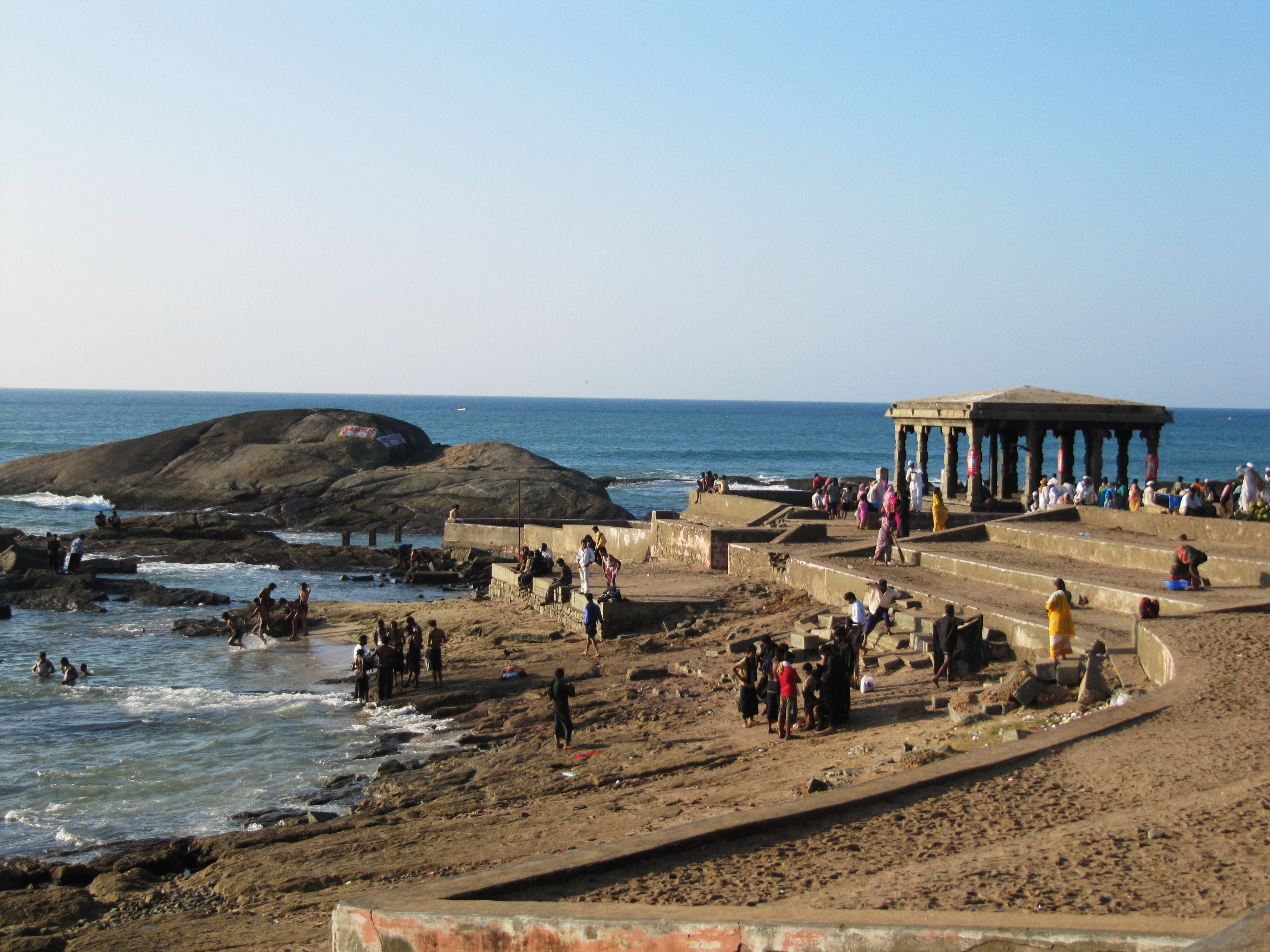 Kumari Amman Temple, Kanyakumari, Tamil Nadu, India